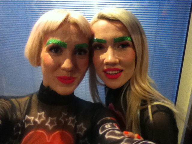 Selfie by Jazzy King of herself and her sister Ruby King, the duo Blonde Electra, at the first live show of the series The X Factor (UK series 11) on 11 October 2014